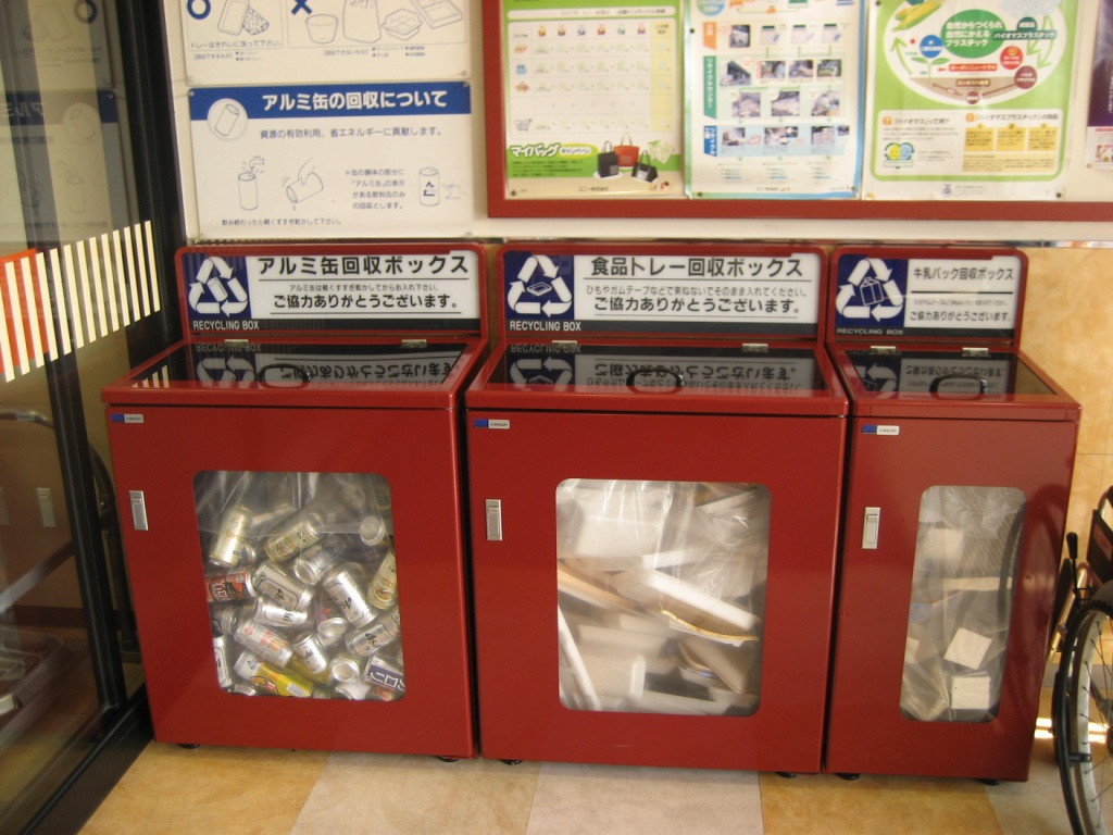 I wish we had plastics recycling in the UK like this. Indeed sometimes it's hard to throw non-recyclable things away in public places in Japan. I note no plastic bag recycling though.